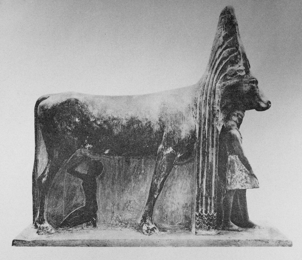 Divine cow of Hathor at the Temple of Thutmosis III in Deir el-Bahary, found by Henry Edouard Naville in 1906, inscribed for Amenophis II (son of Thutmosis III.), Amenophis is represented 2 times: in front of the cow and as young boy nursing on the right side